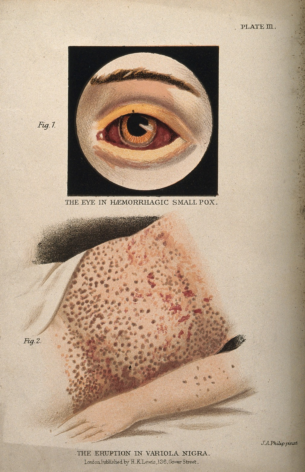 Fig. 1 ; The eye in haemorrhagic smallpox ; Fig. 2 ; The eruption in variola nigra ; J.A. Philip pinxt.